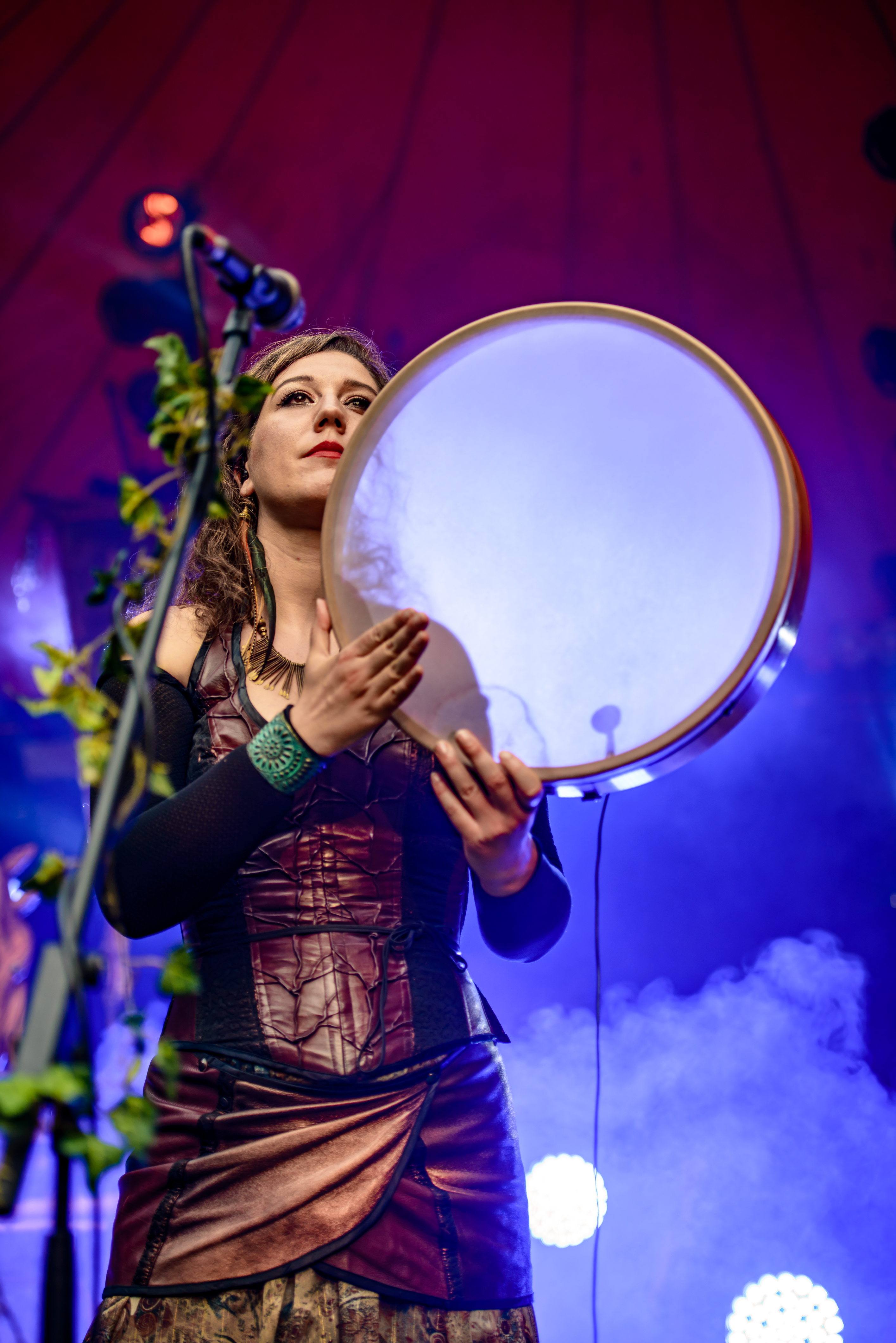 Faun; Feuertal Festival 2016